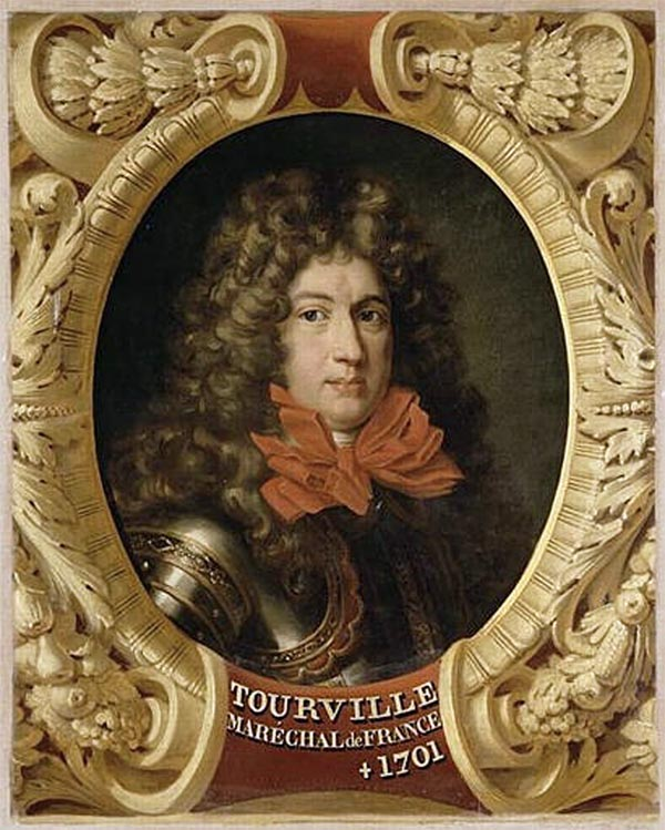 Tourville is the main squadron leader Louis XIV during the War of the League of Augsburg.